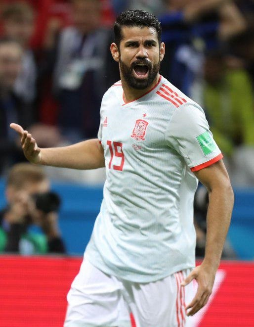 Iran and Spain match at the FIFA World Cup 2018